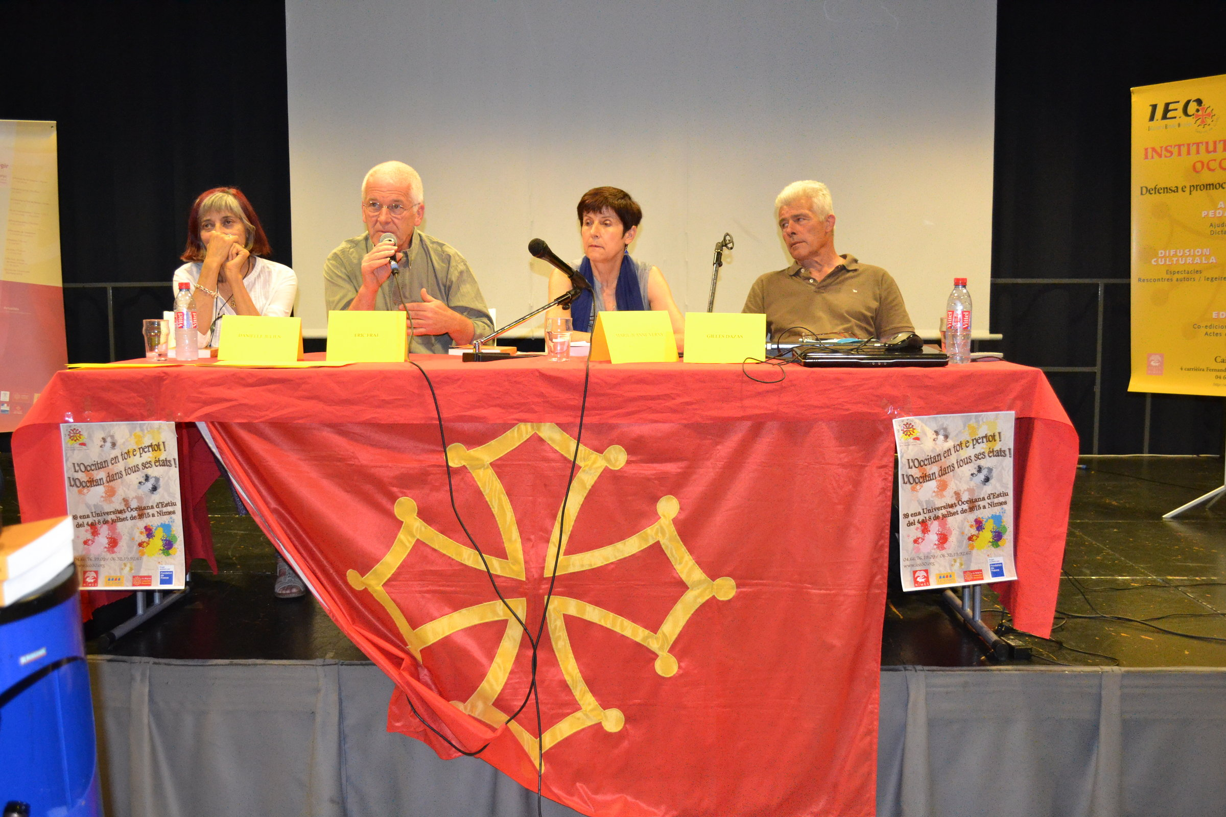 Round-table meeting with Danielle Julien, Marie-Jeanne Verny, Eric Fraj, Gilles Dazas during Nimes Summer Occitan University 2015.